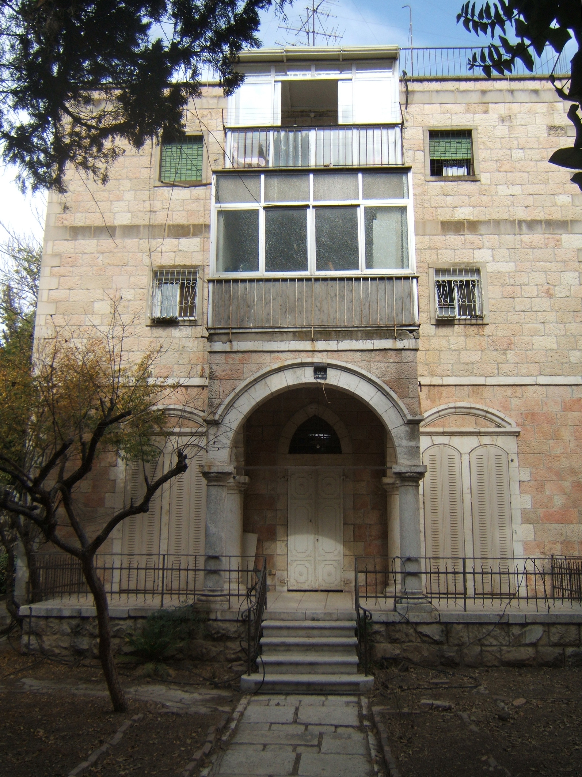 62 Street of Prophets, Jerusalem